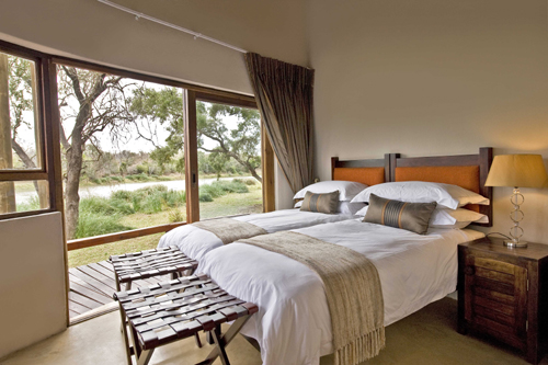 Simbavati River Lodge is an intimate and friendly camp built on the banks of the Nhlaralumi River in the heart of the world famous Timbavati Private Nature Reserve.